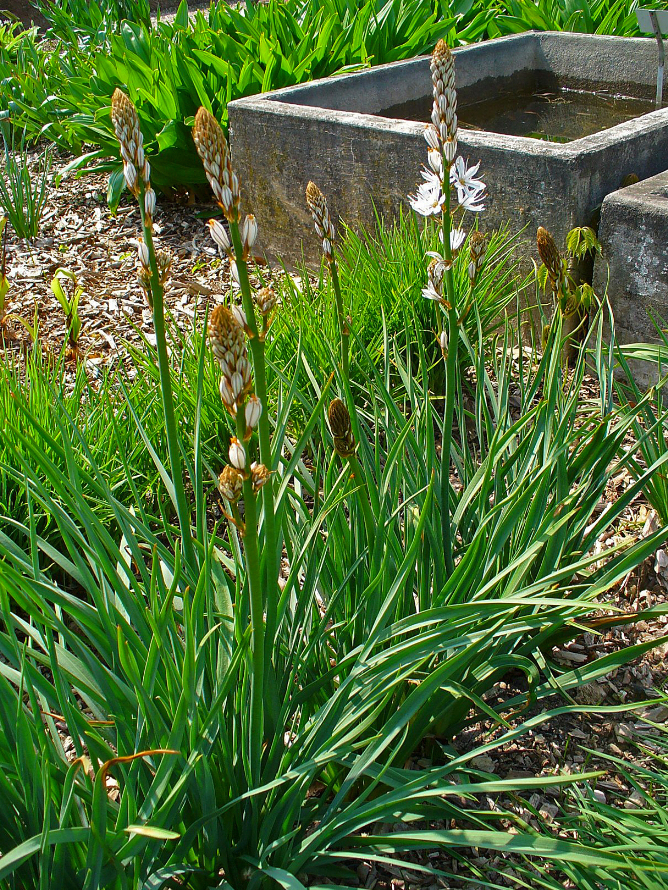 Asphodelus albus, Asphodelaceae, White Asphodel, habitus; Botanical Garden KIT, Karlsruhe, Germany. The plant is used in homeopathy as remedy: Asphodelus albus (Asph-r.)